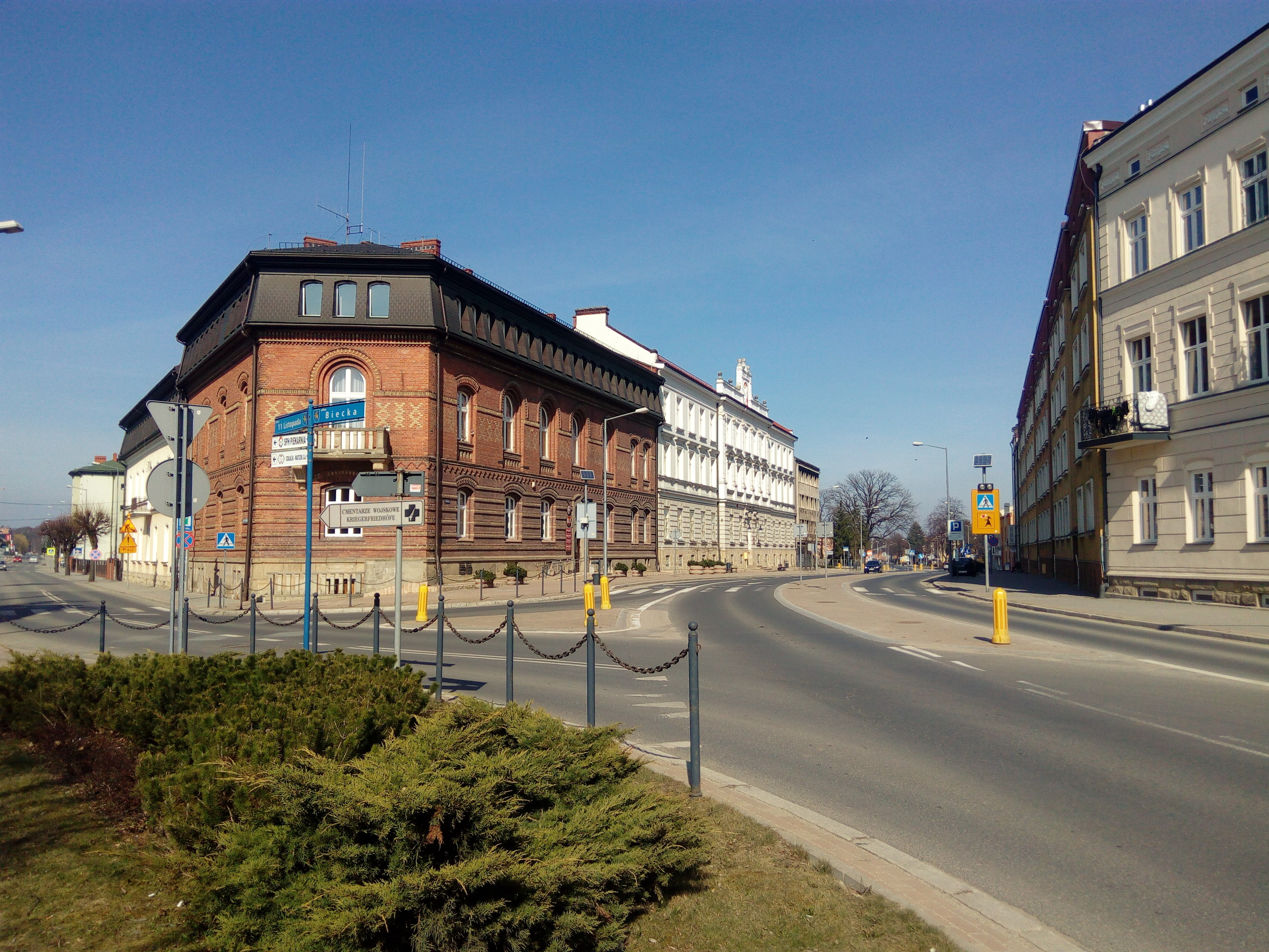 Gorlice, Biecka Street with buildings of the County Authority Office and the Regional Court.